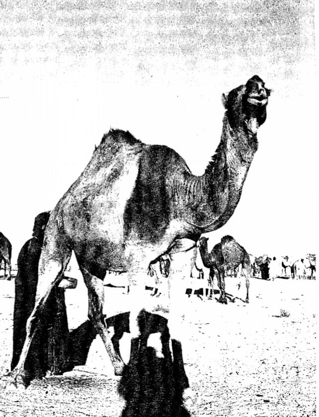 ادرار شتر